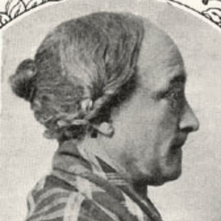 An image of Marriott Edgar (1880-1951), the actor and pantomime dame who wrote The Lion and Albert monologue for Stanley Holloway.